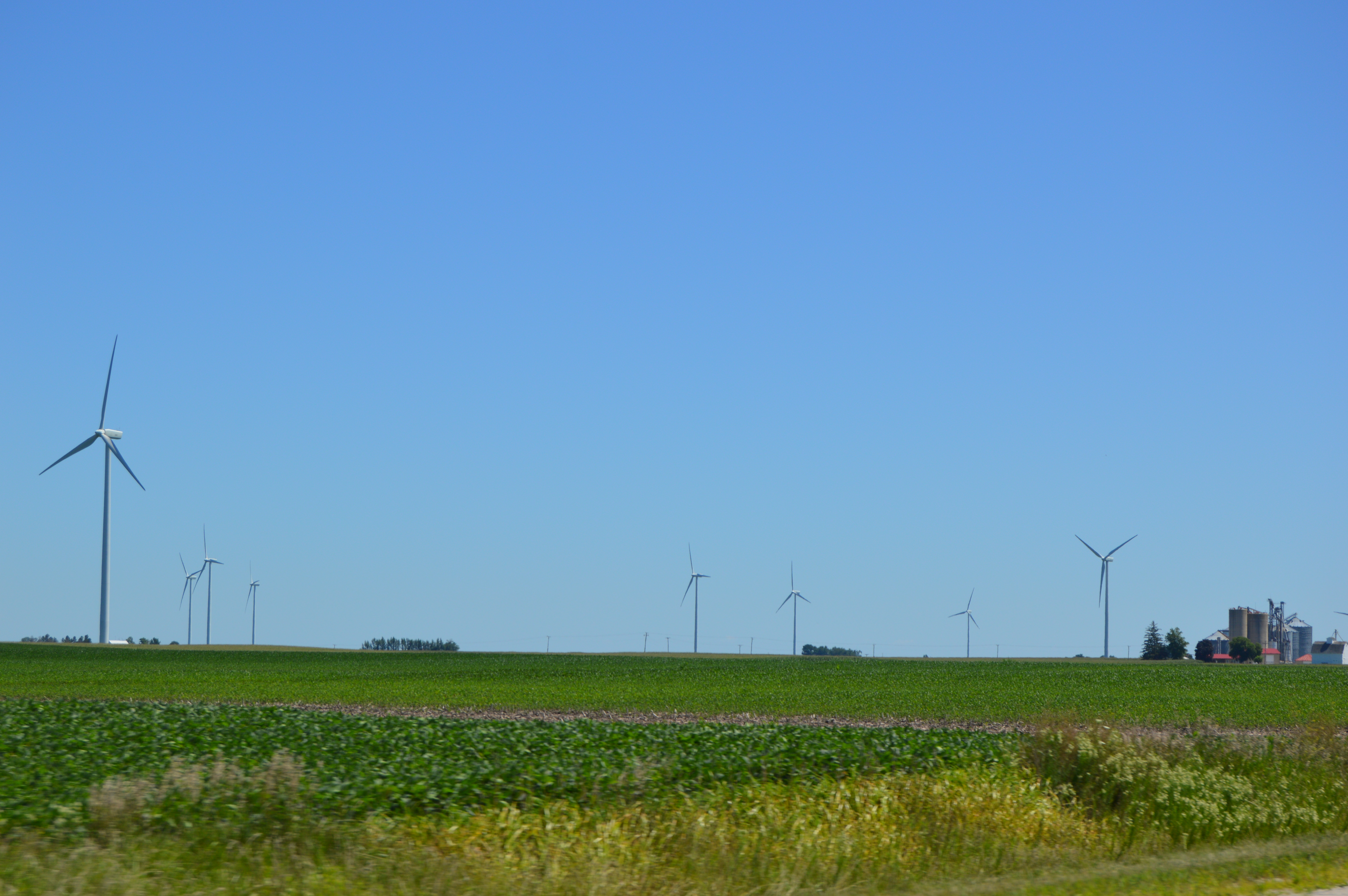 Soybean fields, farmsteads, and wind turbines seen looking north from Illinois Route 116 west of Flanagan in Minonk Township, Woodford County, Illinois, United States.